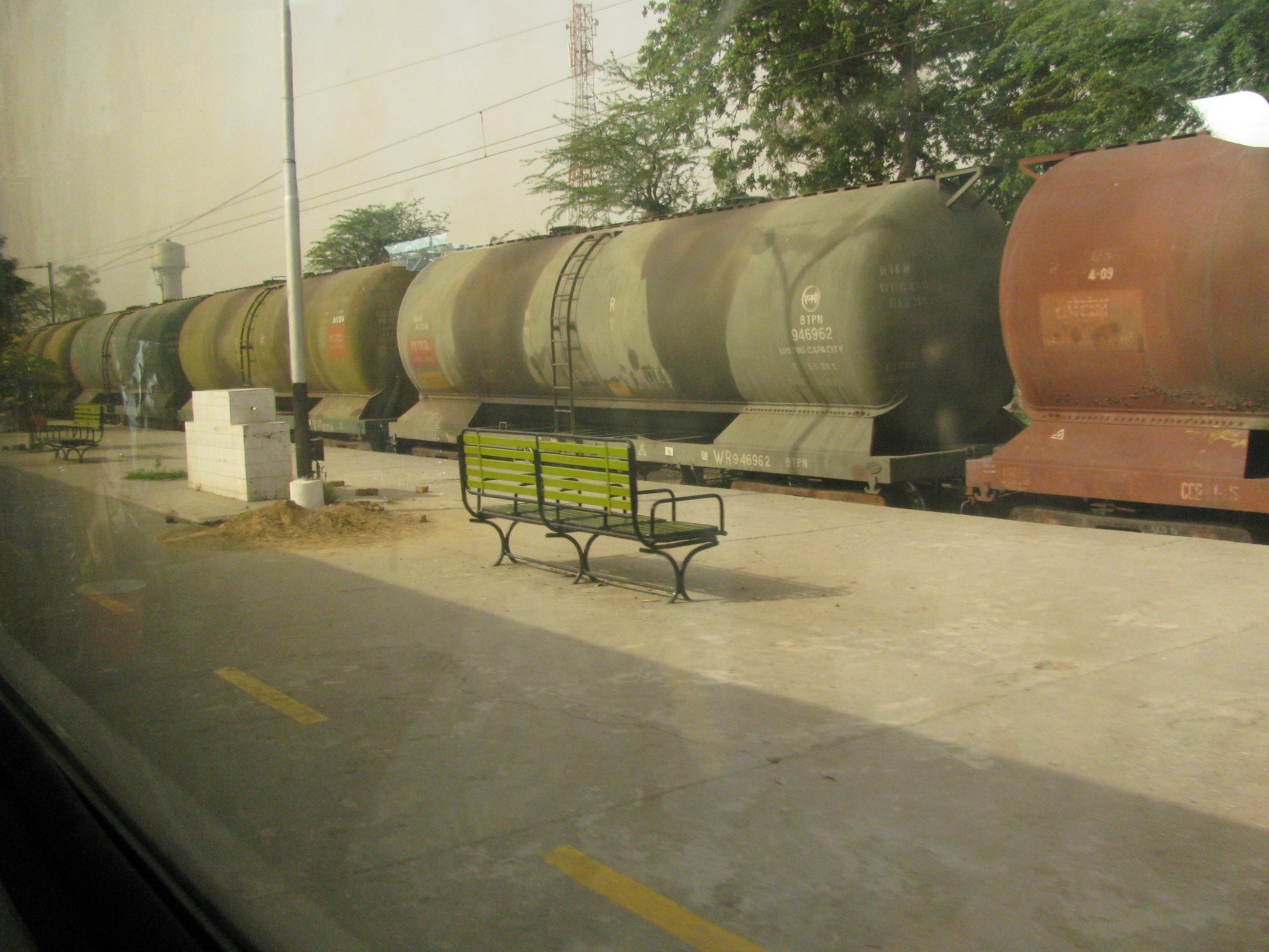 Freight Train at Samalkha Station, Haryana